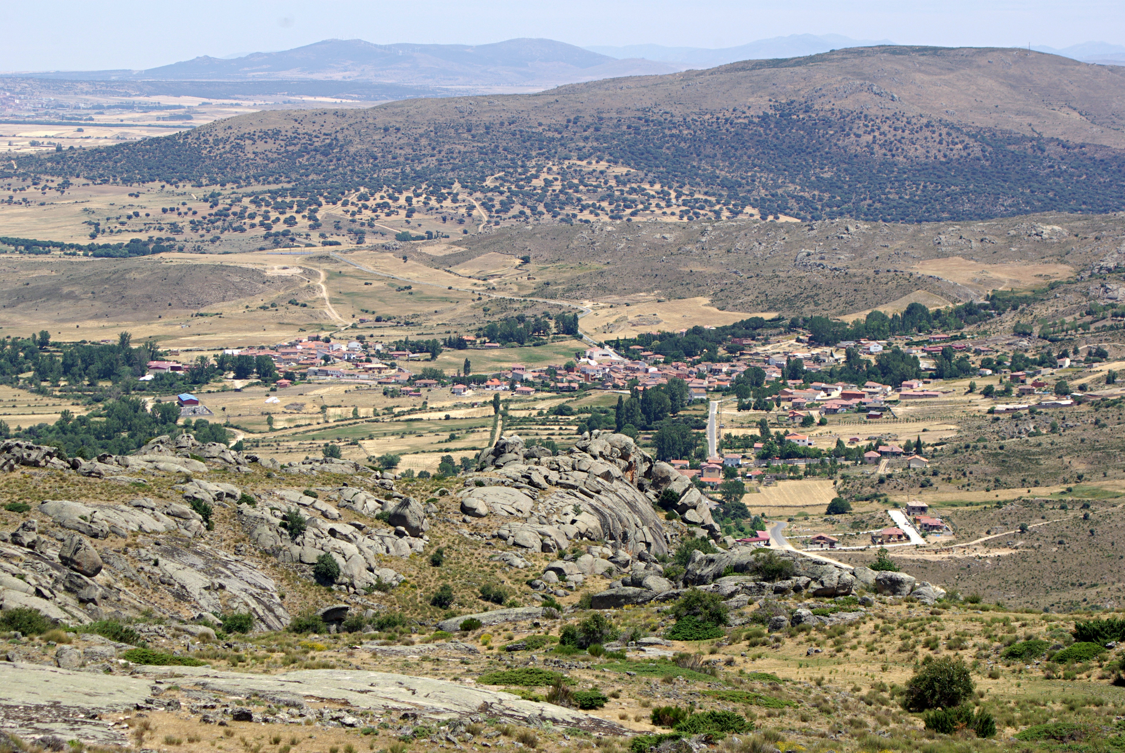 View of Sotalbo and Palacio from Ulaca's hill fort. (Ávila, Spain)